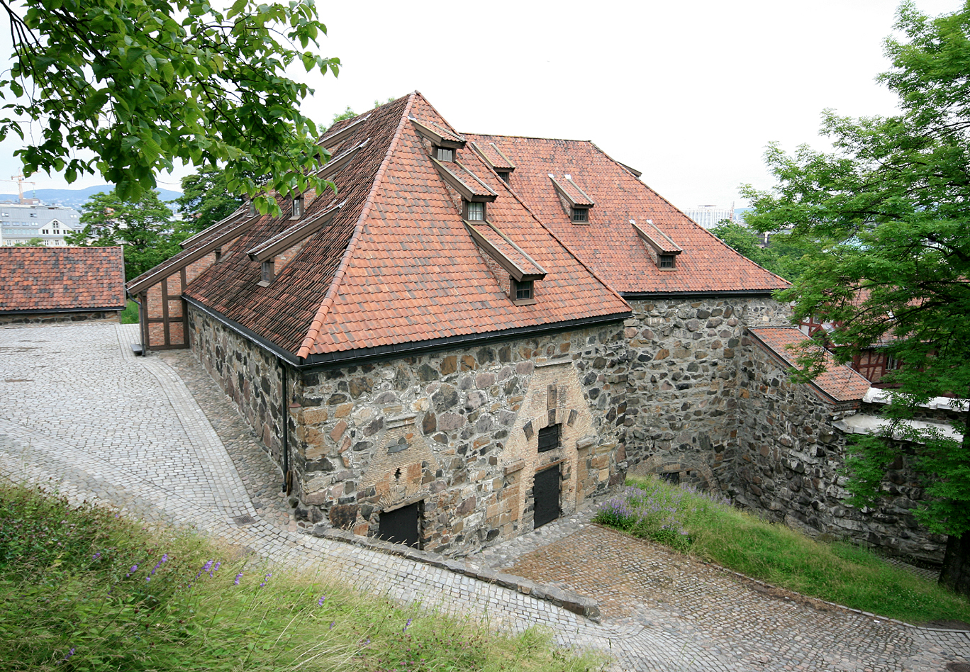 Powder tower, Akershus castle, Oslo. Built 1657.